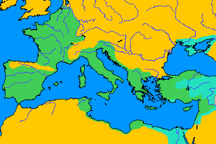 English References H. Kinder and W. Hilgemann, Sesam. Atlas bij de wereldgeschiedenis (Vertaald uit het duits door Jacoba M. Vreugdenhil, Baarn 1965) 90. This map can be adapted Some of the information on this map can be incorrect and could be corrected. I have changed Cyrenaica for instance. It was Roman since 98 BC, which was not shown on the original map of the Atlas zur Weltgeschichte. Just send a message to me.--Daanschr 10:35, 7 May 2006 (UTC) Do you want to join a Mapproject? This map is part of a mapproject that i started. This mapproject has two goals: creating maps with the ultimate historical accuracy and to improve historical maps. At the moment i am the only participant of this project, allthough i got some help from a few users to get acquainted with computer programs and the abilities of Wikipedia. I hope that other people could join me, so the expansion of historically accurate maps could be quicker. Historical accuracy I want to create maps that link to sources. The main source will be historical atlases in bookform and history books. For research tasks, see talk page.